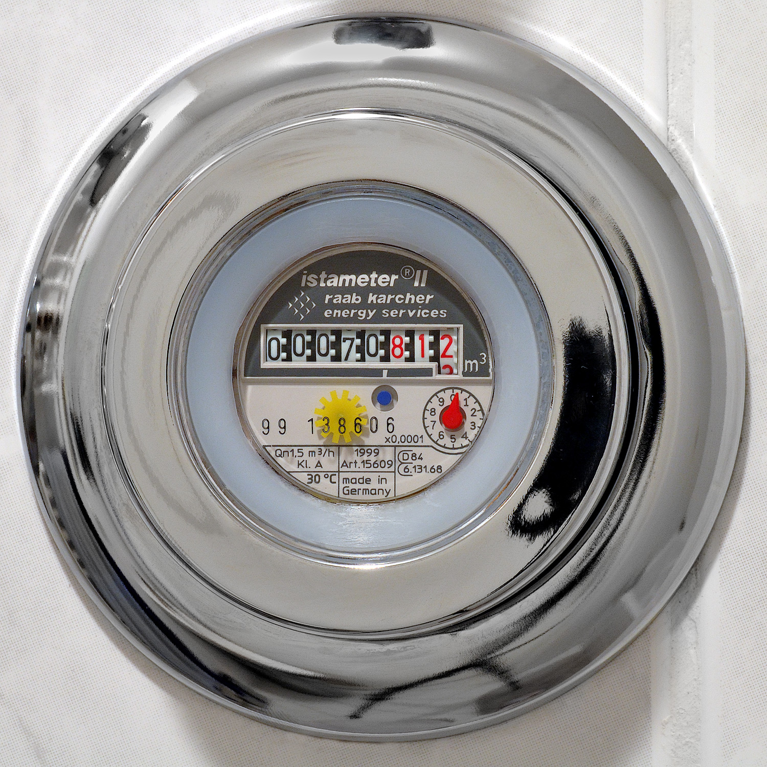 This image shows a water meter.